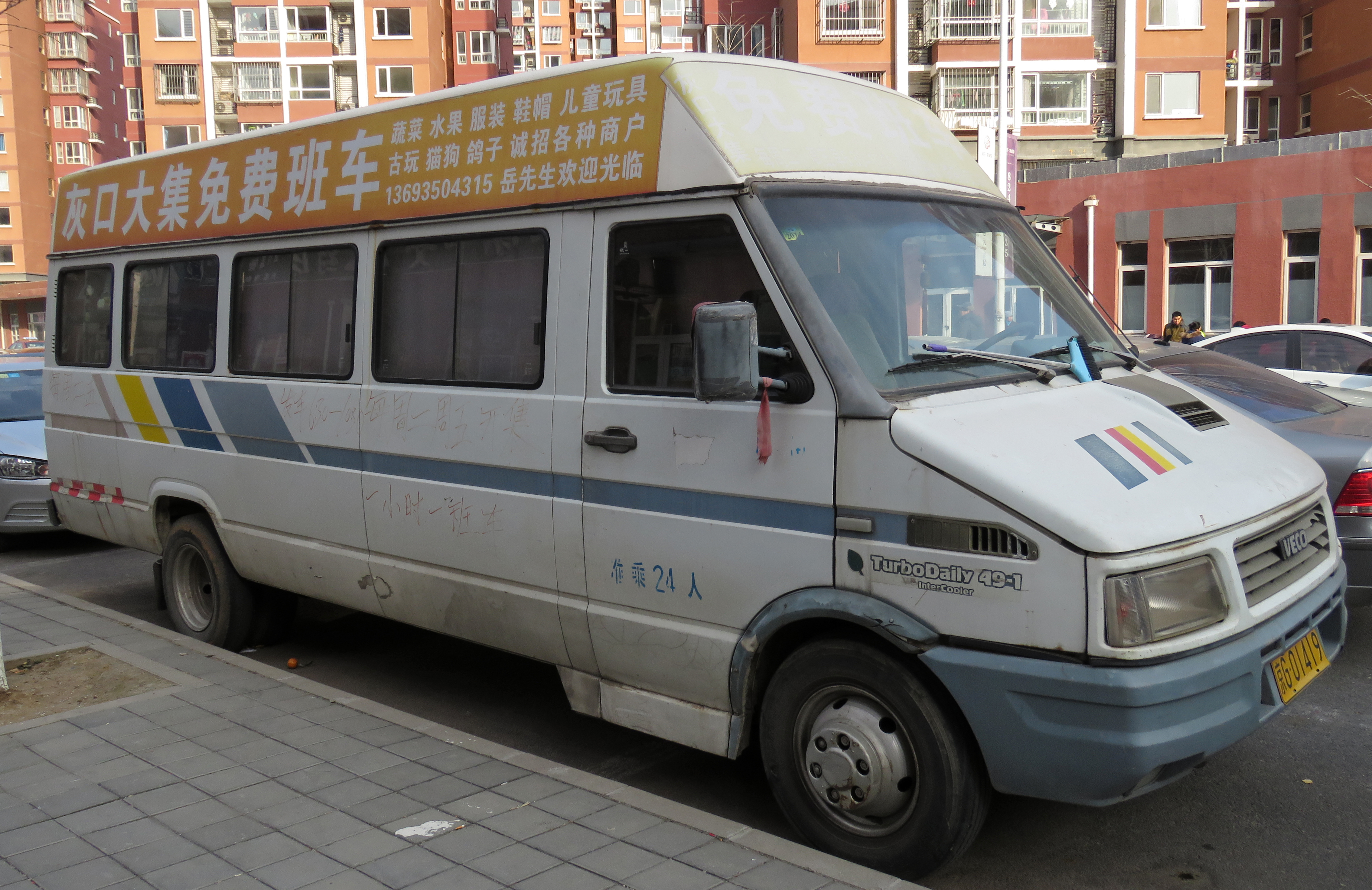 49-12 InterCooler with a capacity of 24.